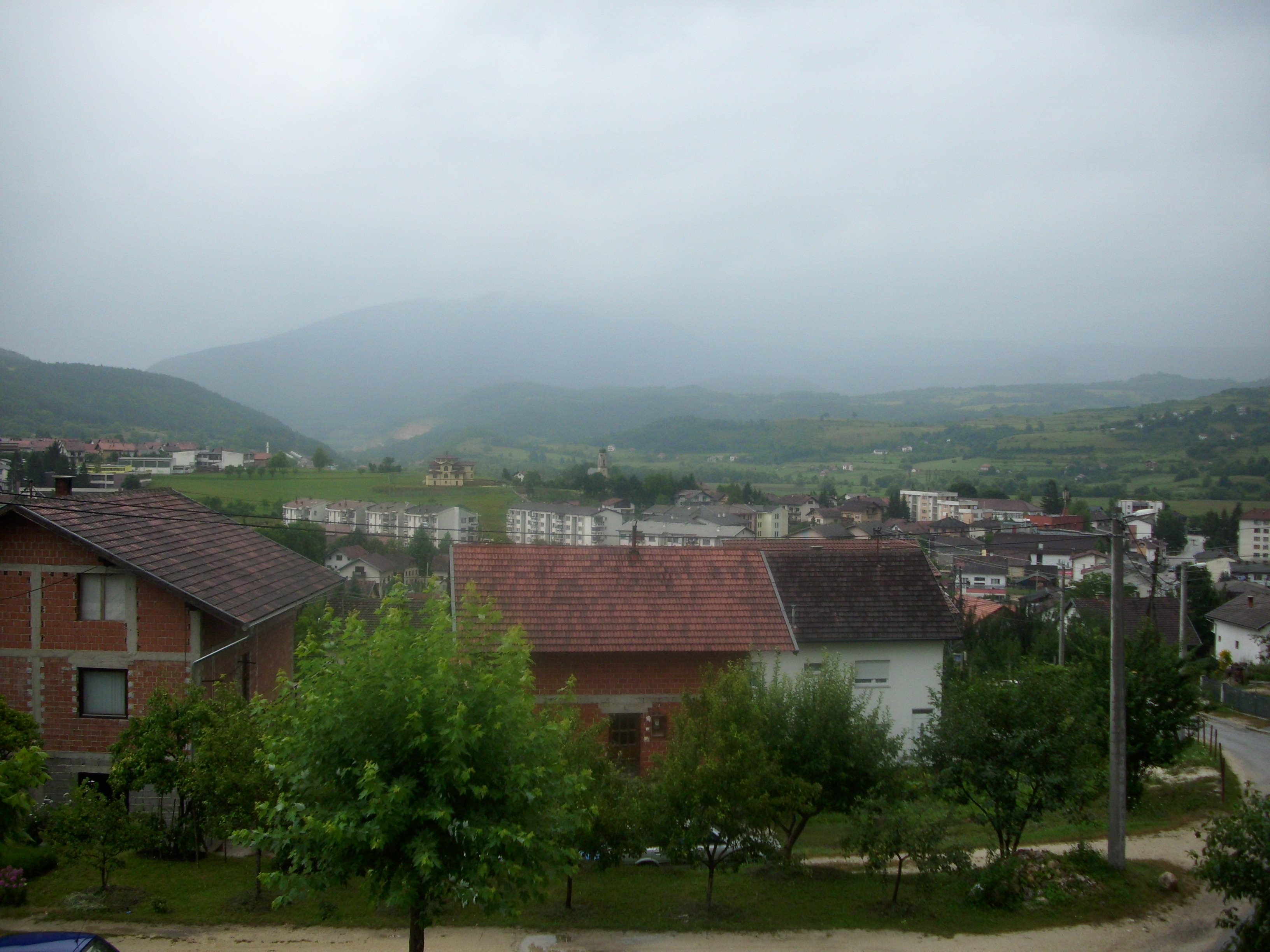 Šipovo